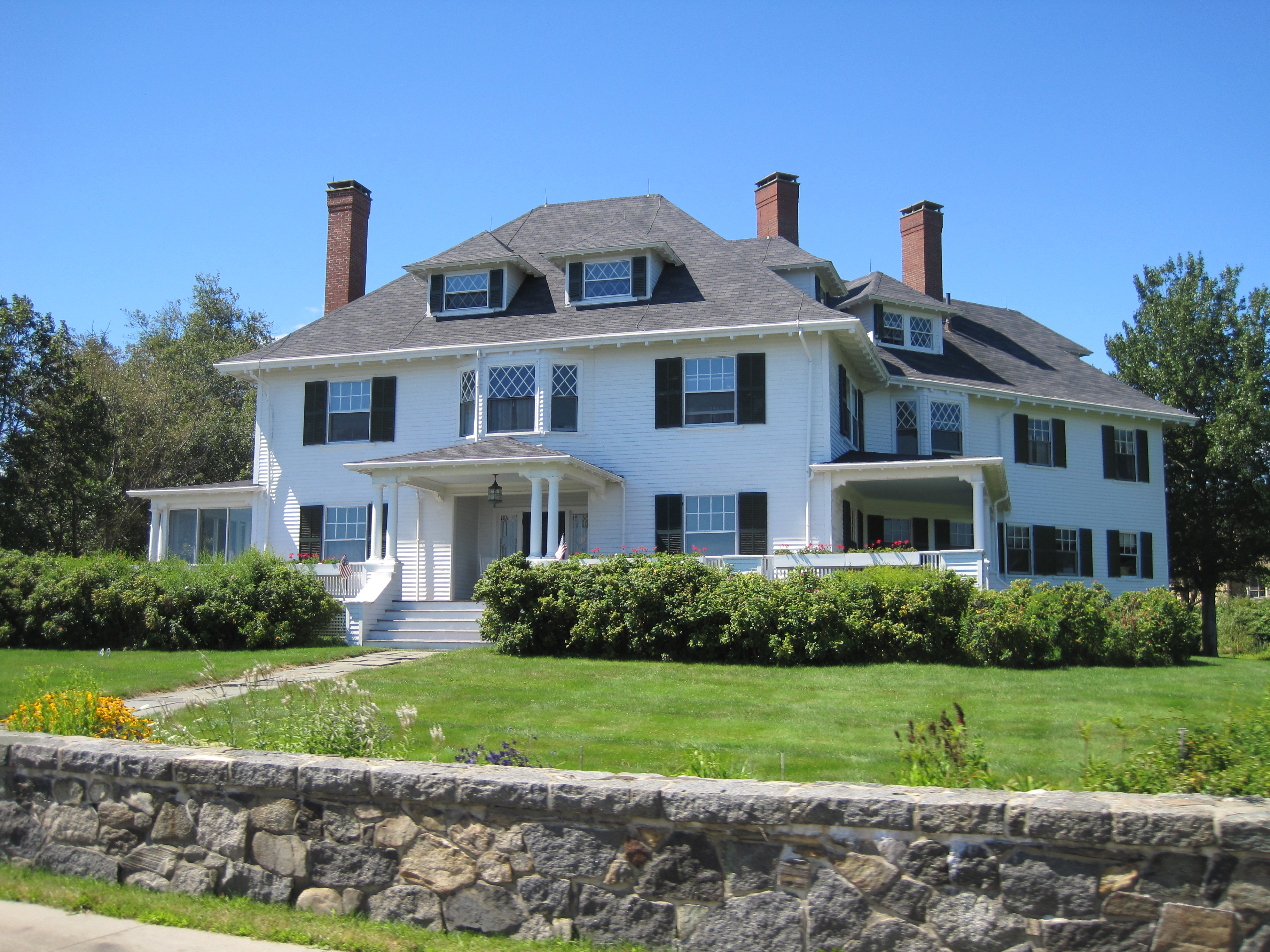 The Bell-Sullivan House in the Little Boar's Head Historic District. I (Teemu08 (talk)) took this image in August 2011.